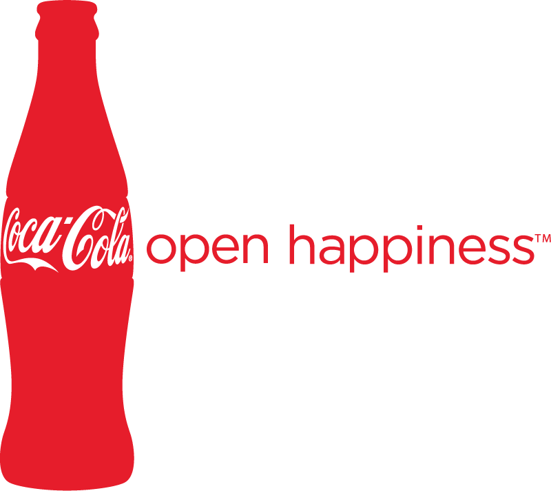 This is a logo for the Open Happiness marketing campaign for The Coca-Cola Company.